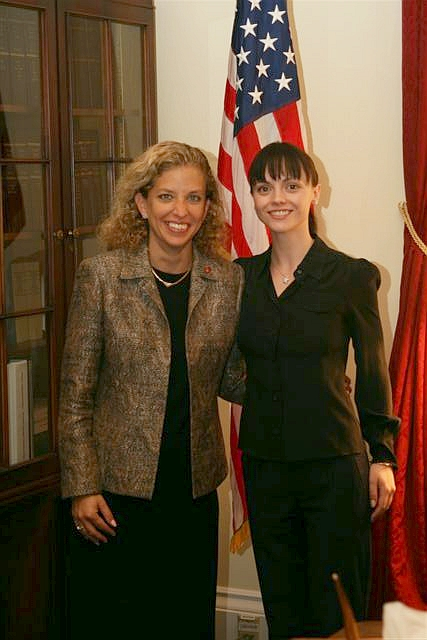 Rep. Debbie Wasserman Schultz met with actress Christina Ricci in April. Ricci was representing the Rape Abuse & Incest National Network (RAINN) and advocated for funding designed to help solve rape cases and make our communities safer.